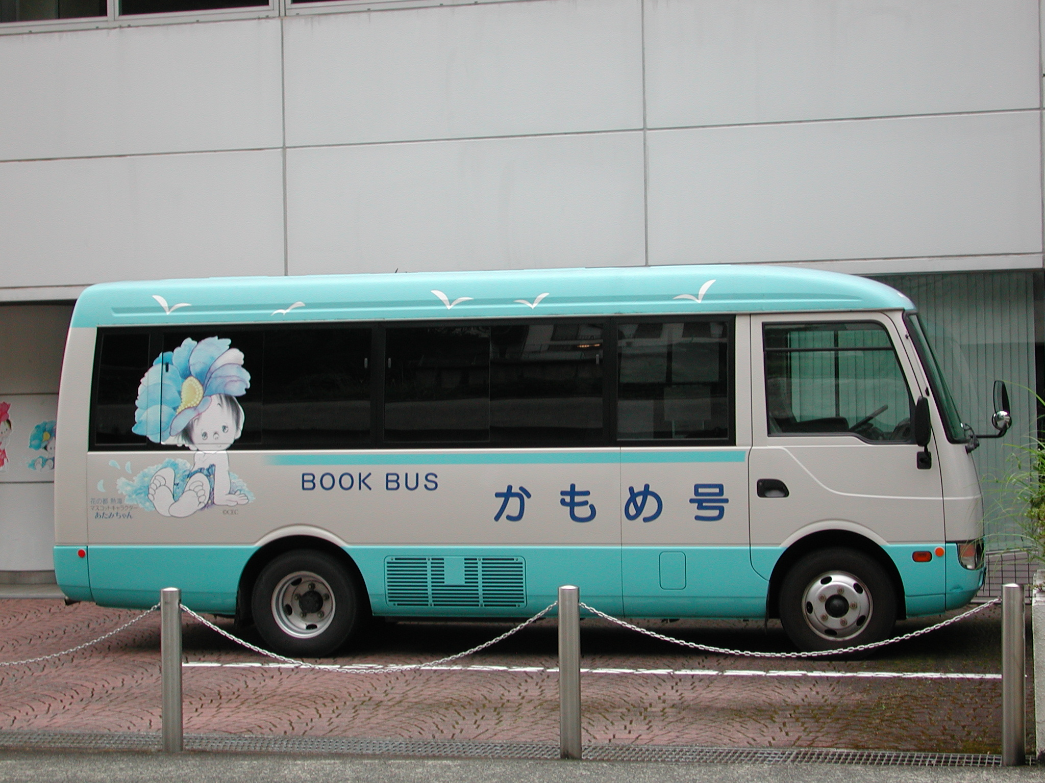 Bookmobile of Atami City Library